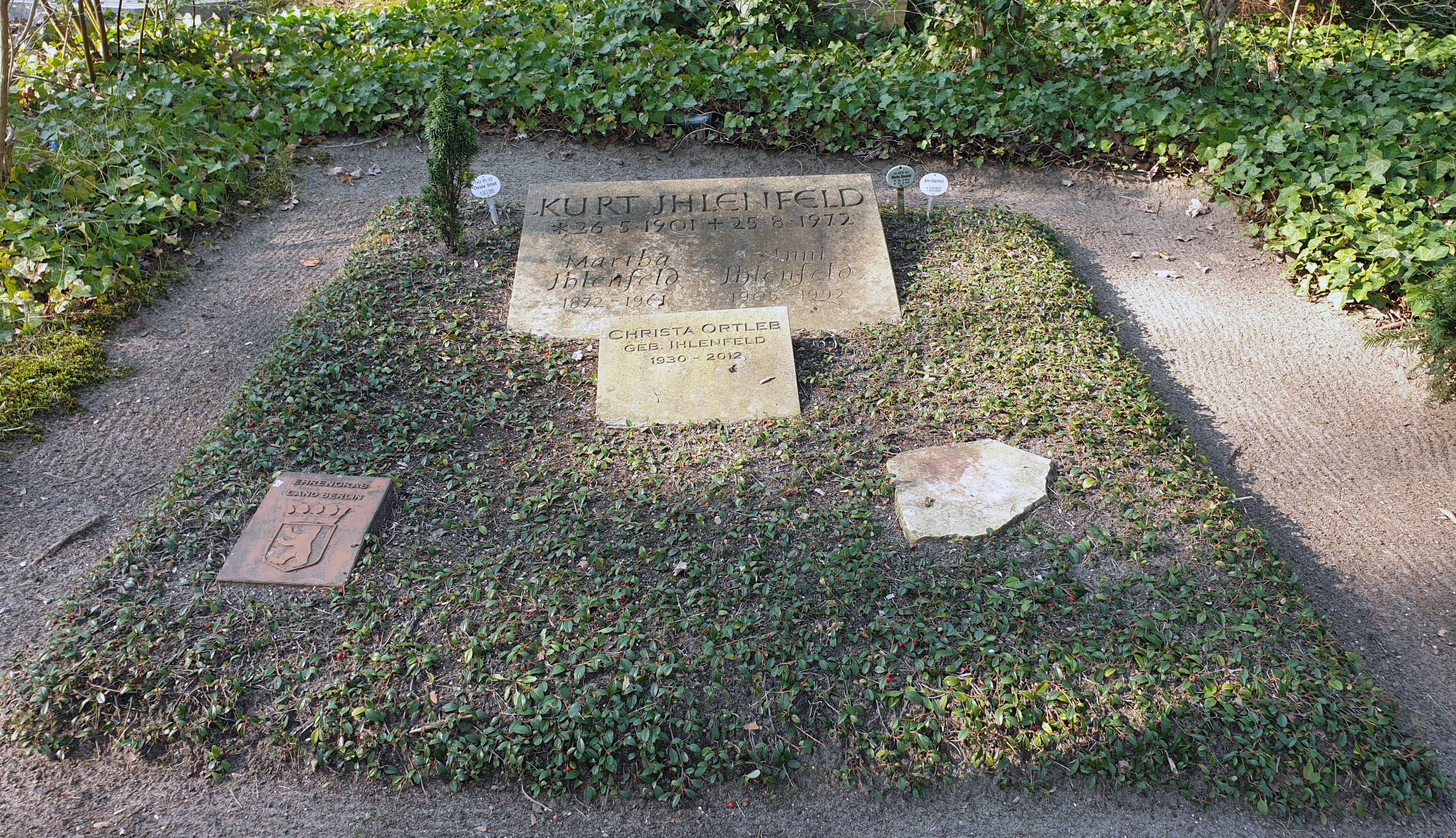 "Ehrengrab" (grave of honor), Kurt Ihlenfeld, Potsdamer Chaussee 75, Berlin-Nikolassee, Germany